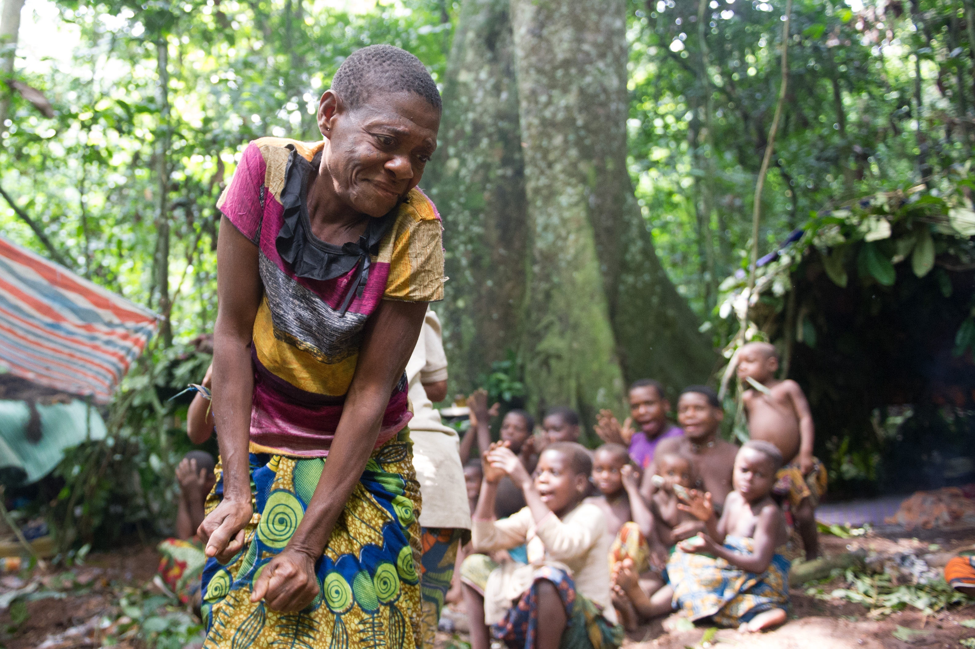 I spent a night in the forest with about 30 BaAka people in southern Central African Republic -- they are known for their awesome music, which was going on in the background This is an image of Cultural Fashion or Adornment from Central African Republic